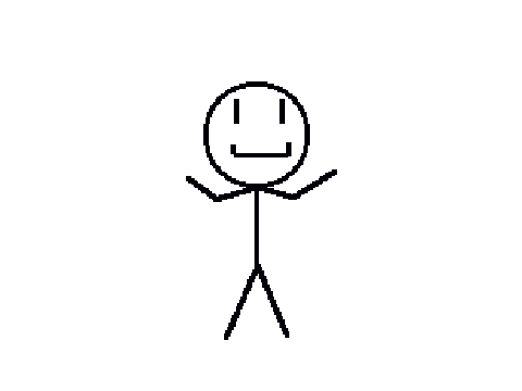 This is me.